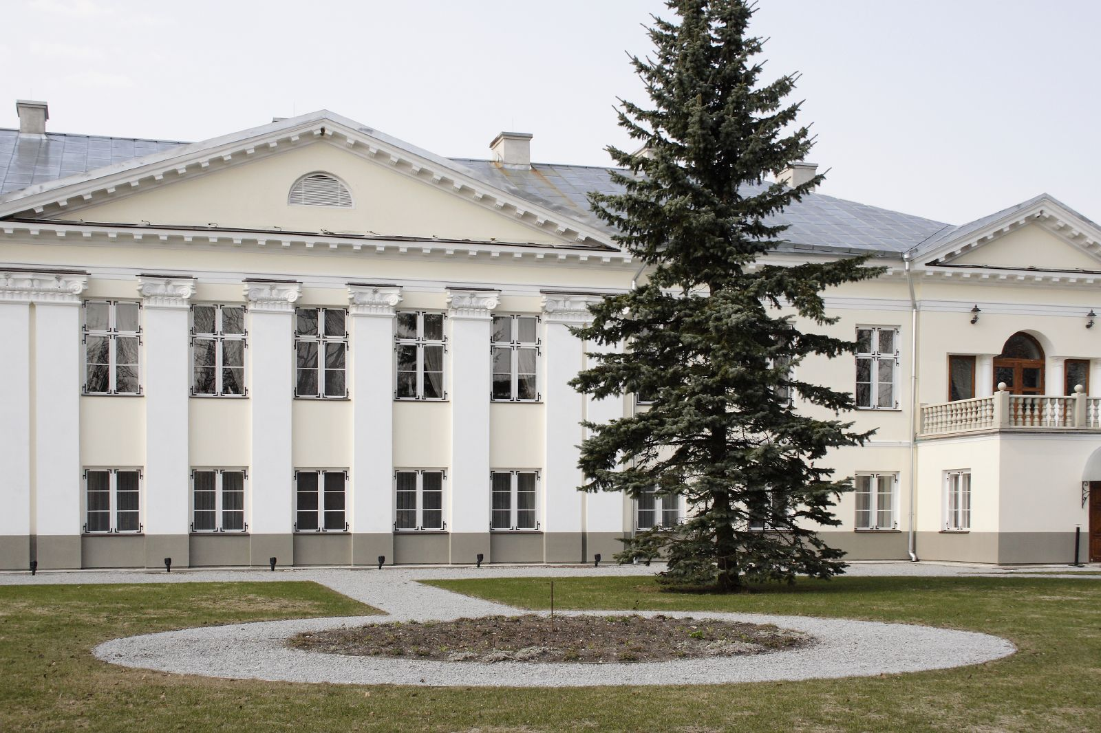 Closer look on the manor house